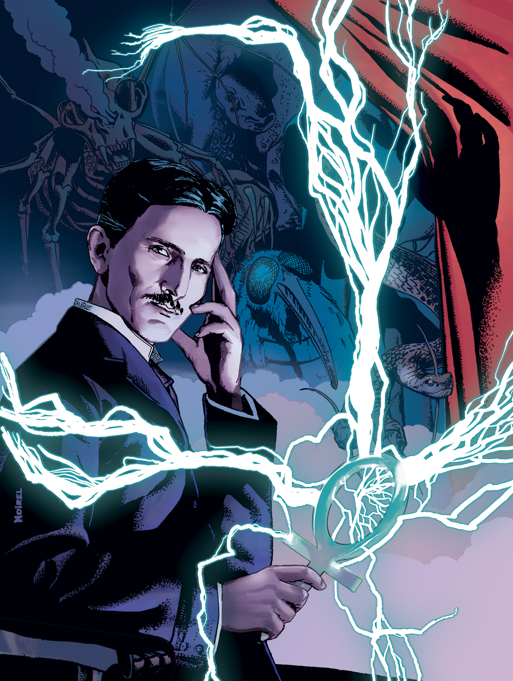 "Nyarlathotep", illustration by Julien Noirel ( promotional image for the graphic novel Nyarlathotep, adaptation by Rotomago and Julien Noirel, of the short story by H. P. Lovecraft (Akiléos, 2007, ISBN-10: 2915168539).